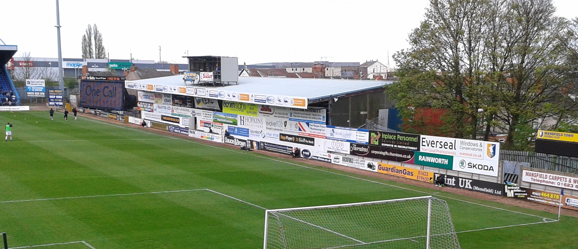 Field Mill Bishop Street Stand